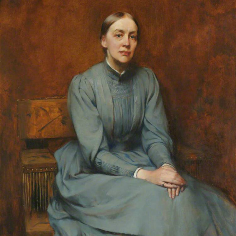 Eleanor Sidgwick by Sir James Jebusa Shannon. She lived (Balfour; 11 March 1845 – 10 February 1936). She was an activist for the higher education of women, Principal of Newnham College of the University of Cambridge, and a leading figure in the Society for Psychical Research